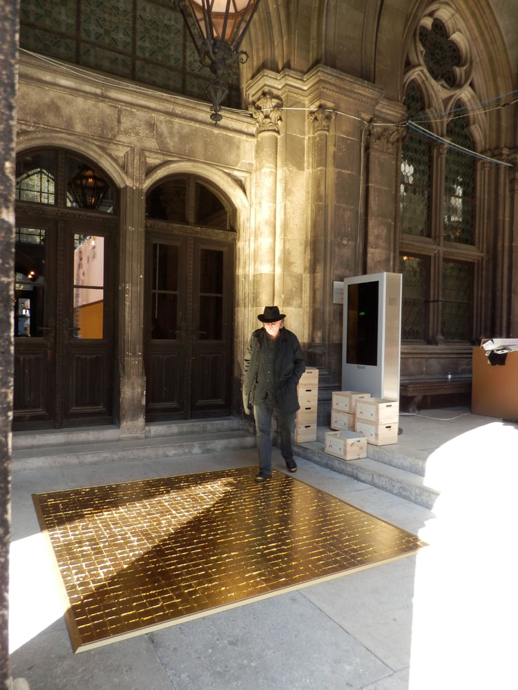 Der Social Gold Carpet erleuchtet den Arkadengang des Wiener Rathauses. Johannes Angerbauer-Goldhoff beim Life Ball 2015